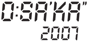 Part of the logo of 2007 World Championships in Athletics